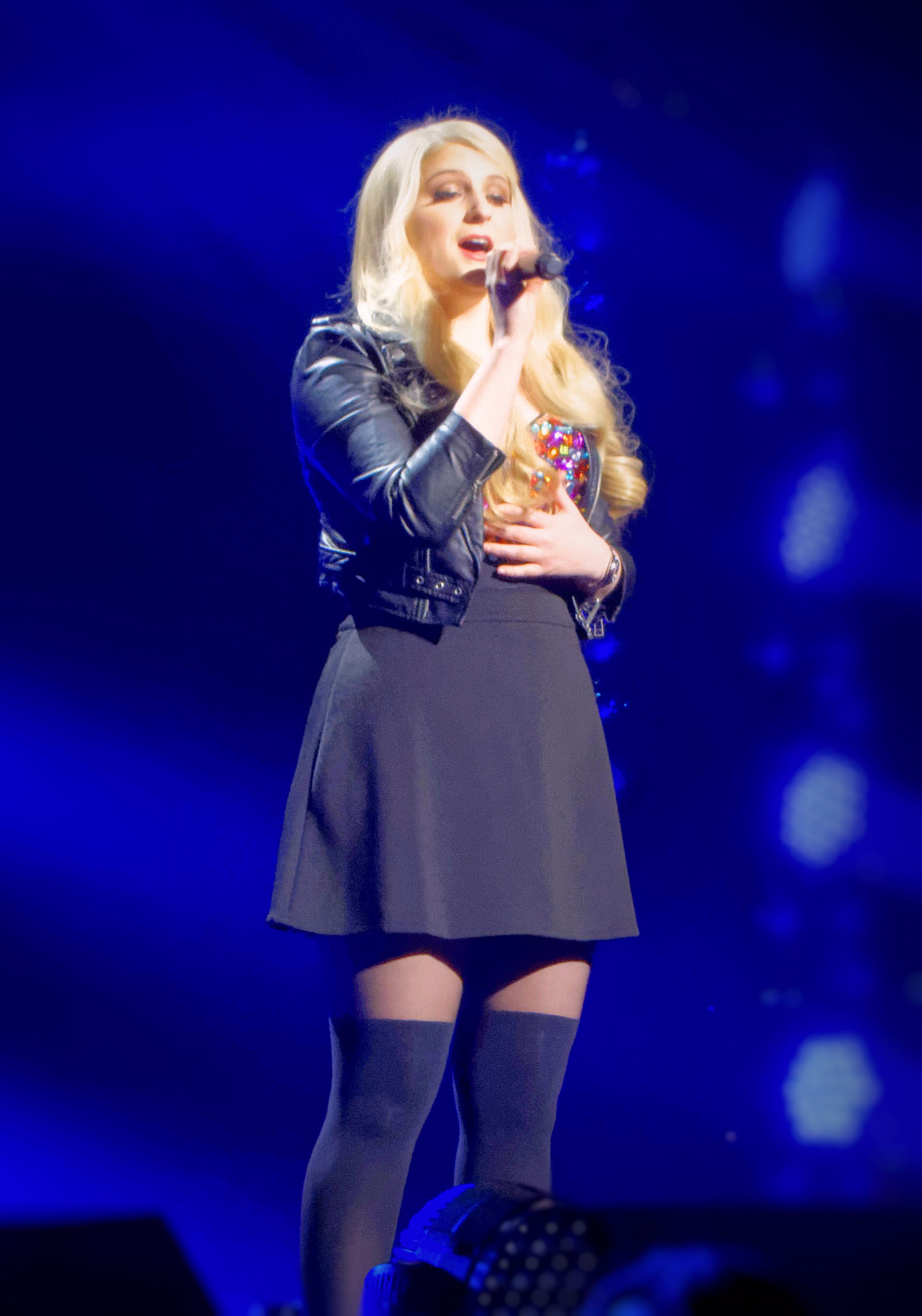 Meghan Trainor performing during the Q102 Philly Jingle Ball tour in 2014